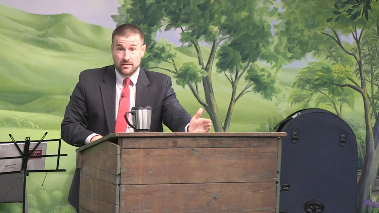 Screengrab from the 7:06 mark of [1], a CC-BY YouTube video.